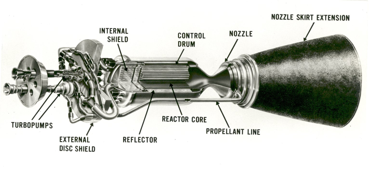 A diagram of a NERVA nuclear rocket engine; from NASA